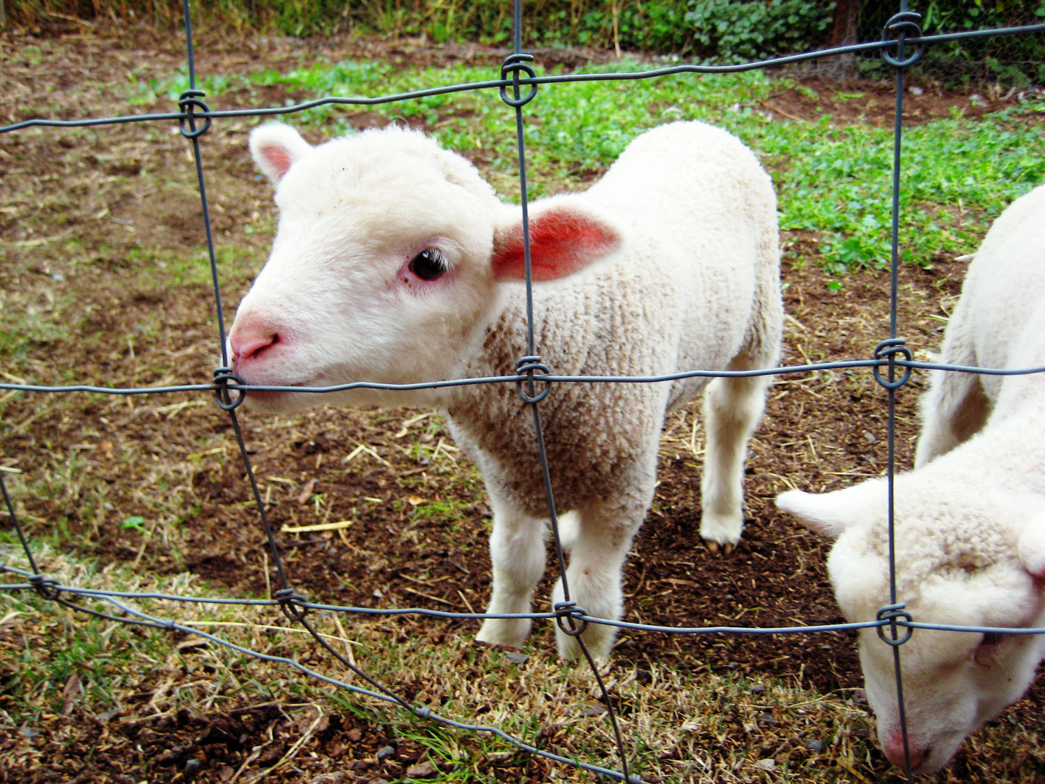 English Leicester lambs at Collingwood Children's Farm